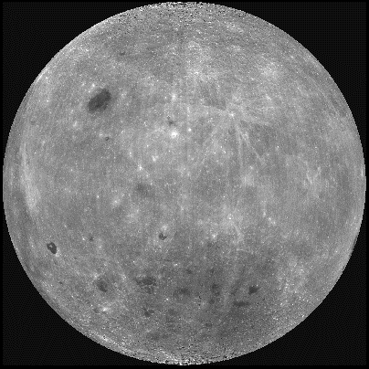 Ana e largët e Hënës